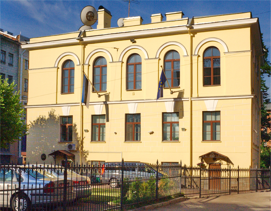 Consulate-General of Estonia in Saint Petersburg